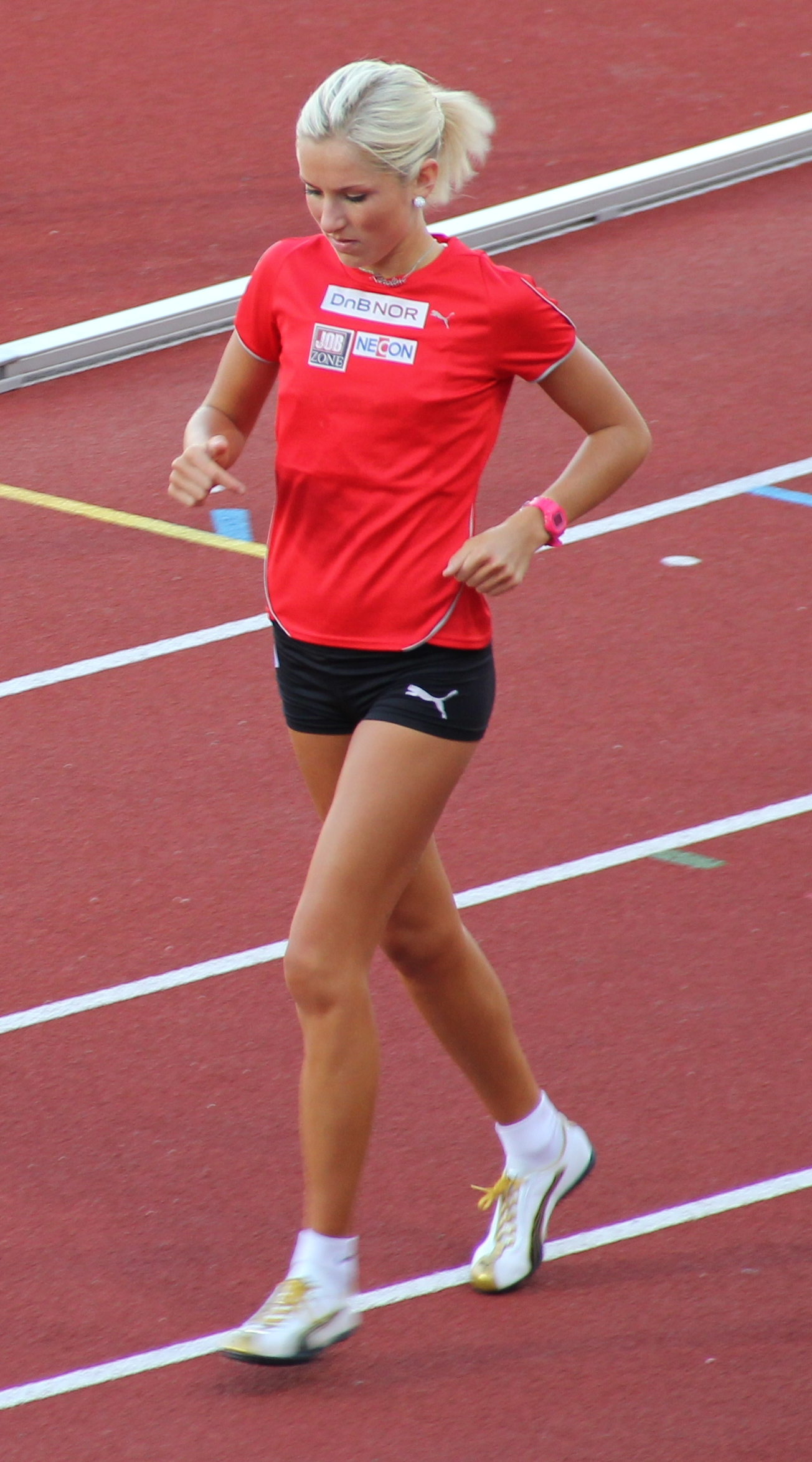 Karoline Bjerkeli Grøvdal warming up to the 2010 Bislett Games